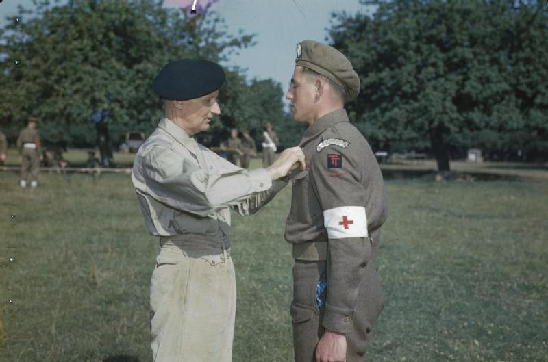 General Montgomery Decorates Men of the 50th Division, Normandy, 17 July 1944 Lance Corporal G Baldwin, 7th Battalion, Green Howards receives the Military Medal from General Sir Bernard Montgomery for his gallantry as a stretcher bearer during a battle around a radio-location station after the Normandy landings.